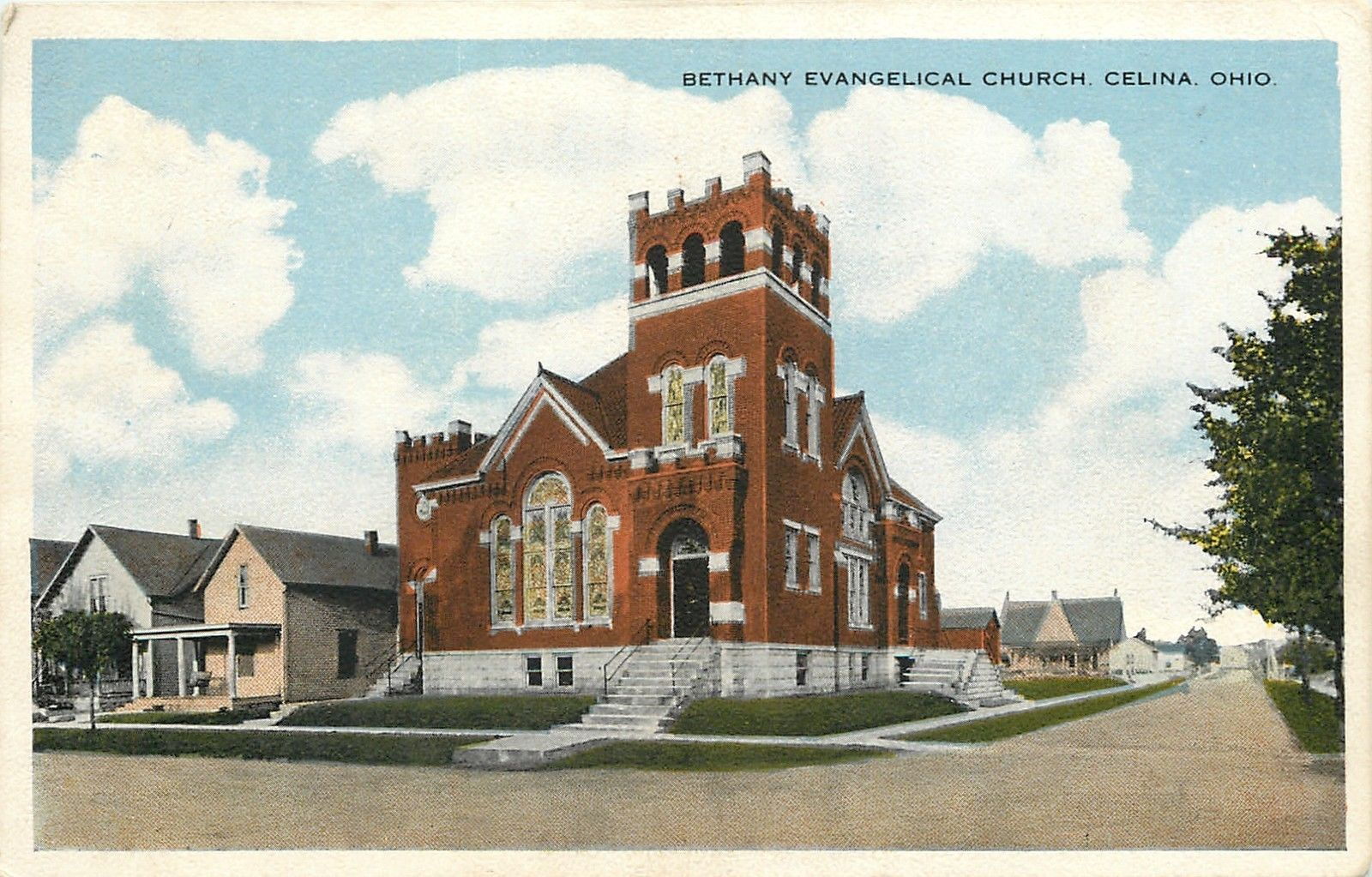 Postcard depicting the front and northern side of the newly constructed Bethany Evangelical Church, located on the southwestern corner of the intersection of Blake and Walnut Streets in Celina, Ohio, United States. It was built between 1907 and 1914, being present on the latter year's Sanborn map but absent from the former's.